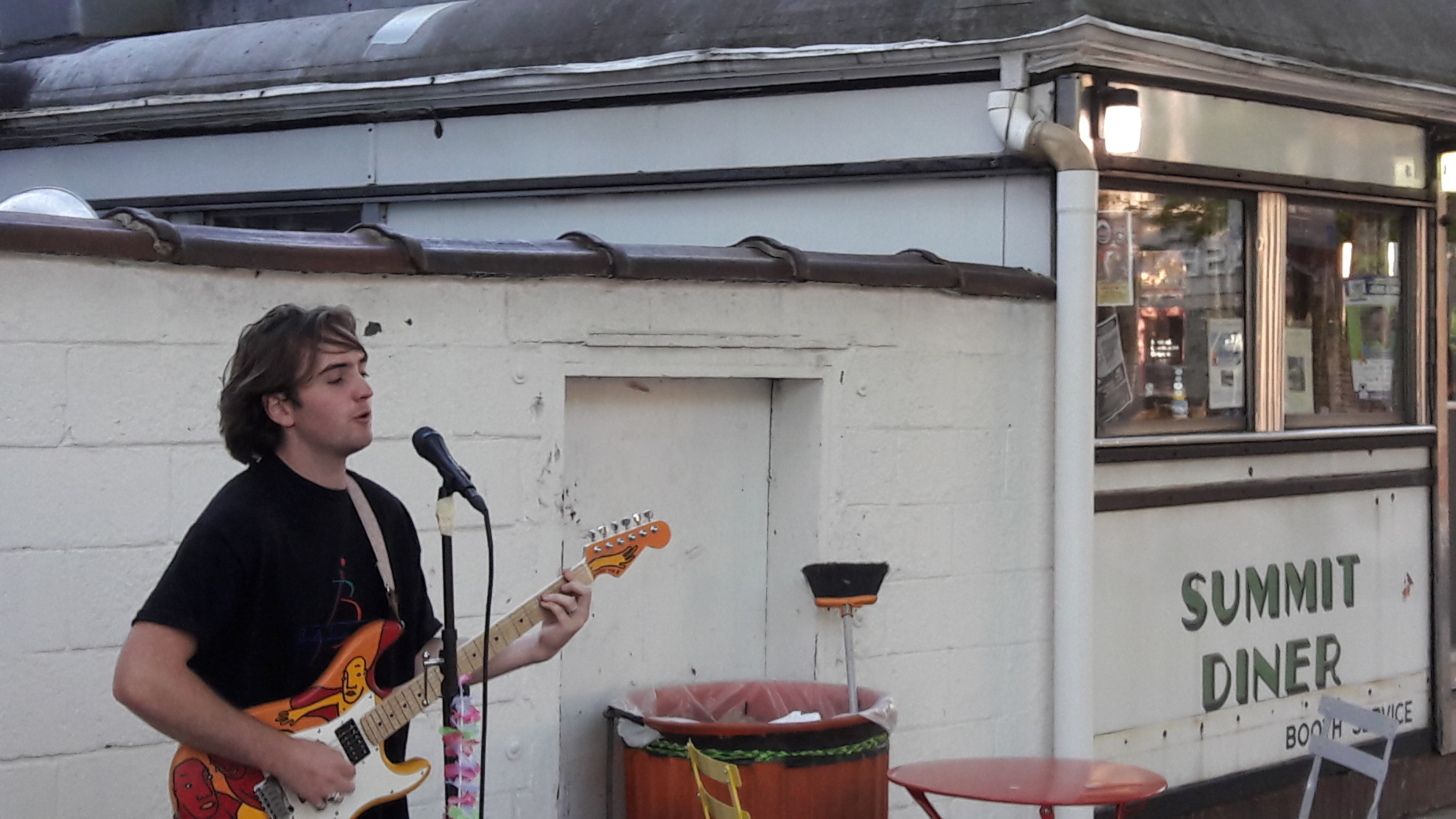 The city of Summit, New Jersey, is encouraging a variety of arts-related projects, including singer-songwriter performances such as this one by Kid Hastings.